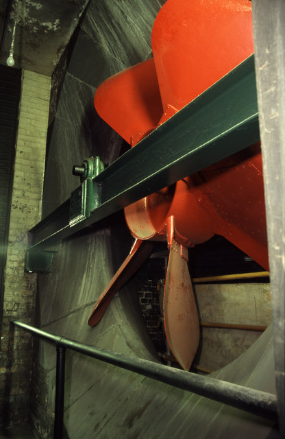 "Large axial flow fan driven by one of two steam engines that back each other up. Now out of use but was certainly still workable in 2005 and this part of the complex was to be preserved. It is quite remarkable that the only two installations of this type that are known to survive are in Belfast and within a reasonable walk of each other." ([1])